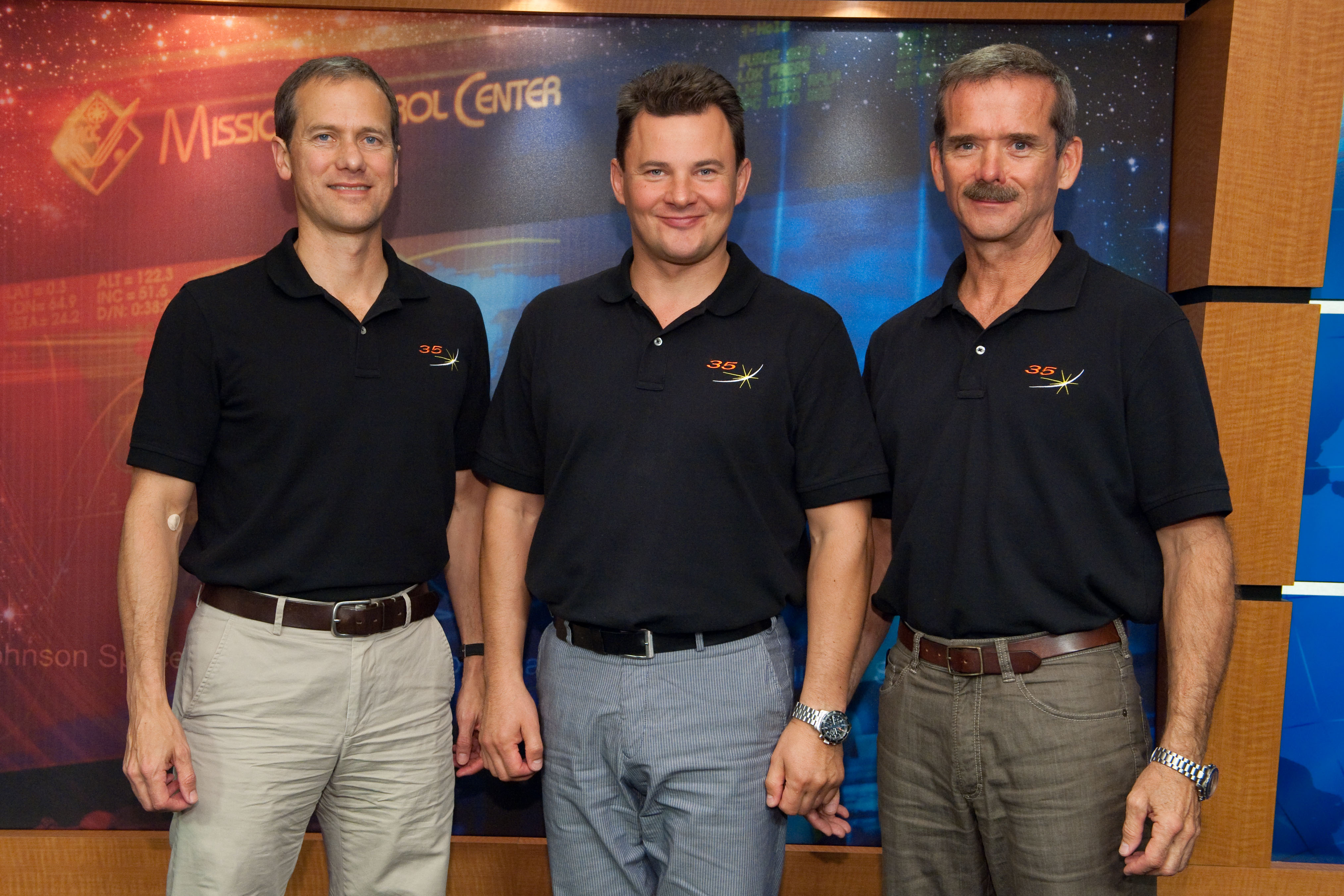 Canadian Space Agency astronaut Chris Hadfield (right), Expedition 34 flight engineer and Expedition 35 commander; along with Russian cosmonaut Roman Romanenko (center) and NASA astronaut Tom Marshburn, both Expedition 34/35 flight engineers, pose for a portrait following an Expedition 34/35 preflight press conference at NASA's Johnson Space Center.